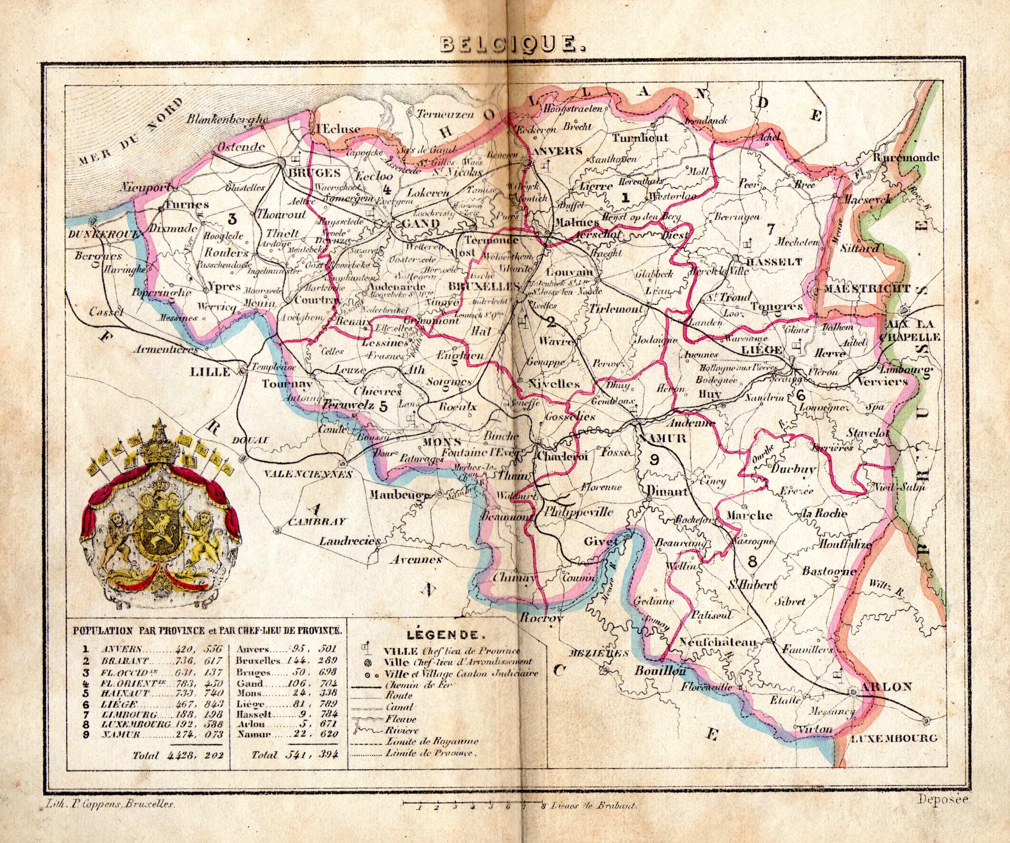 Map of Belgium, c. 1850-60 (certainly pre-1870). Borders with the Netherlands, France and Prussia marked and population given in table at bottom.